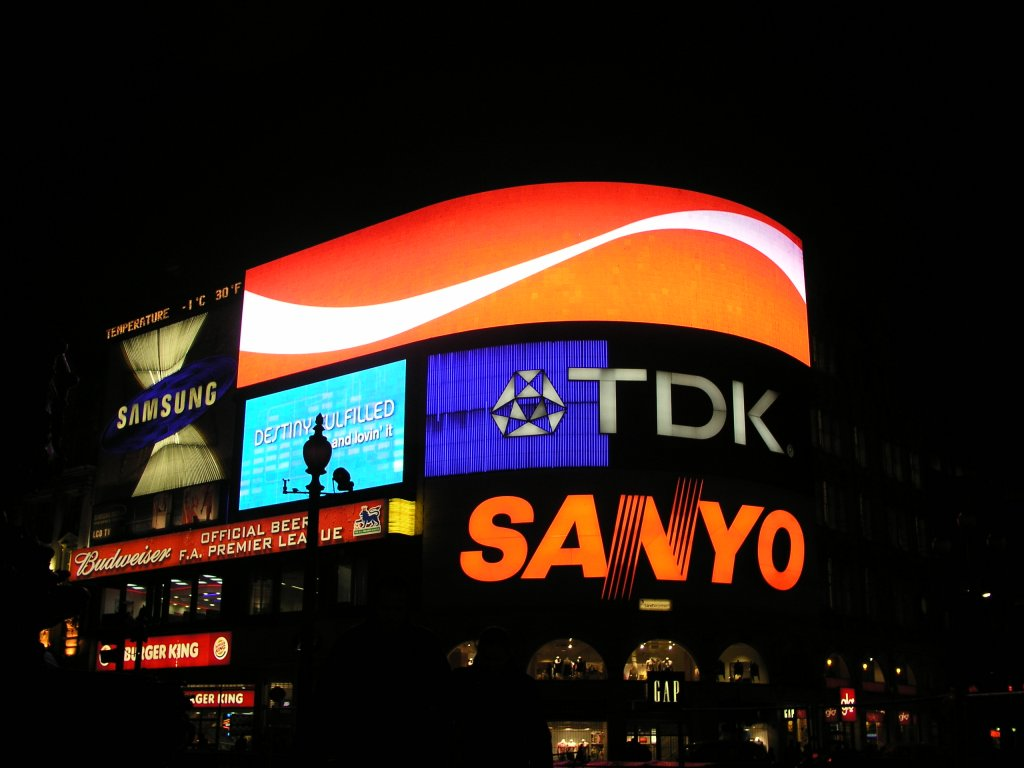 Piccadilly Circus